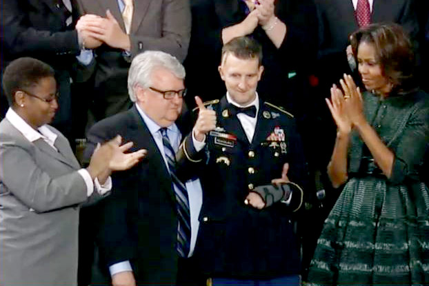 Army Sgt. 1st Class Cory Remsburg, who was wounded by a bomb blast in Afghanistan on his 10th deployment, gives a thumbs up to the audience, which applauded after President Barack Obama cited him during the State of the Union address, Jan. 28, 2014. Remsburg was a guest in First Lady Michelle Obama's box during the speech.